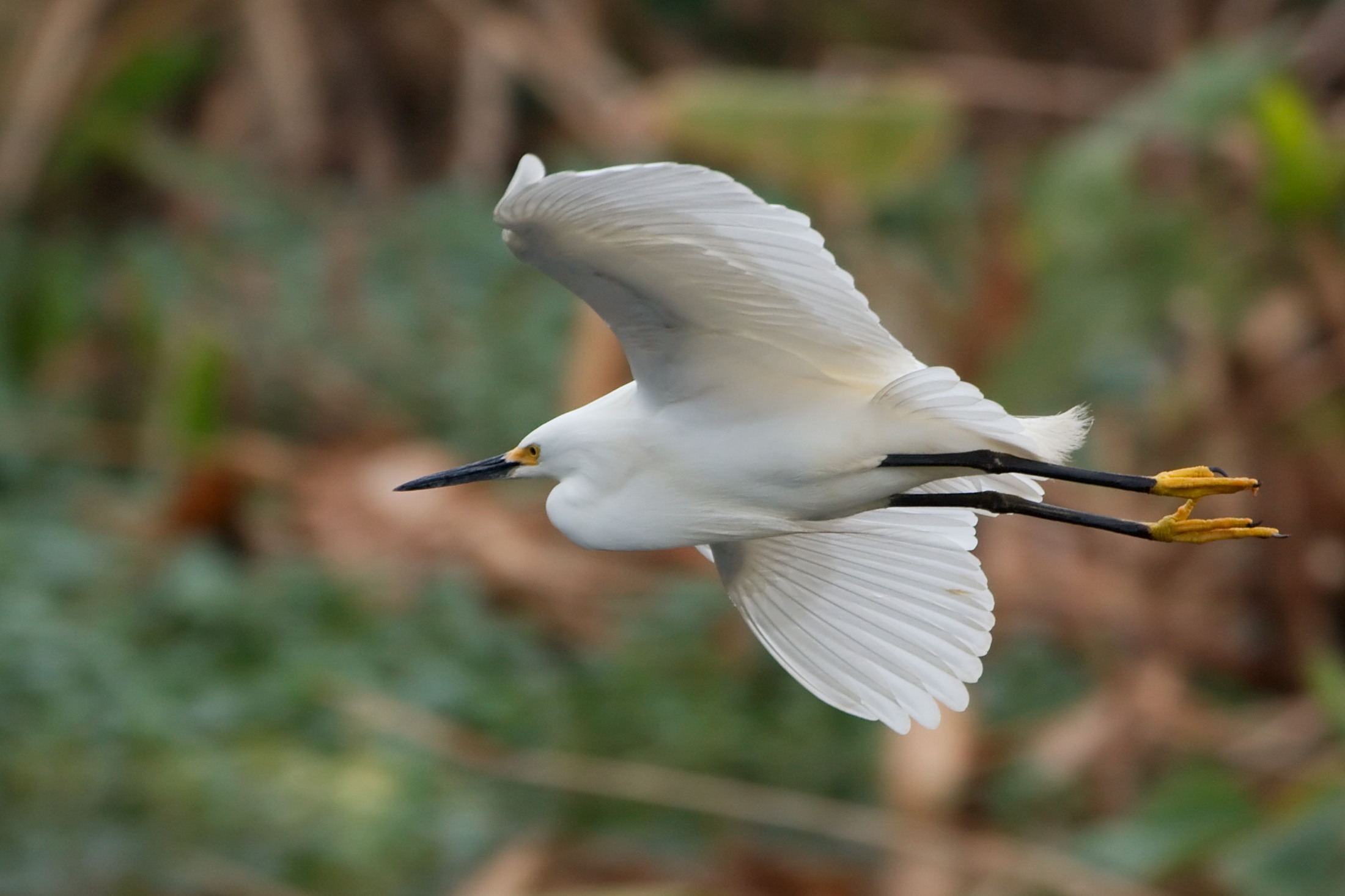 A snowy egret (Egretta thula), in flight, Wakodahatchee Wetlands, Delray Beach, Florida